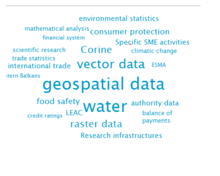 Popular terms tag.